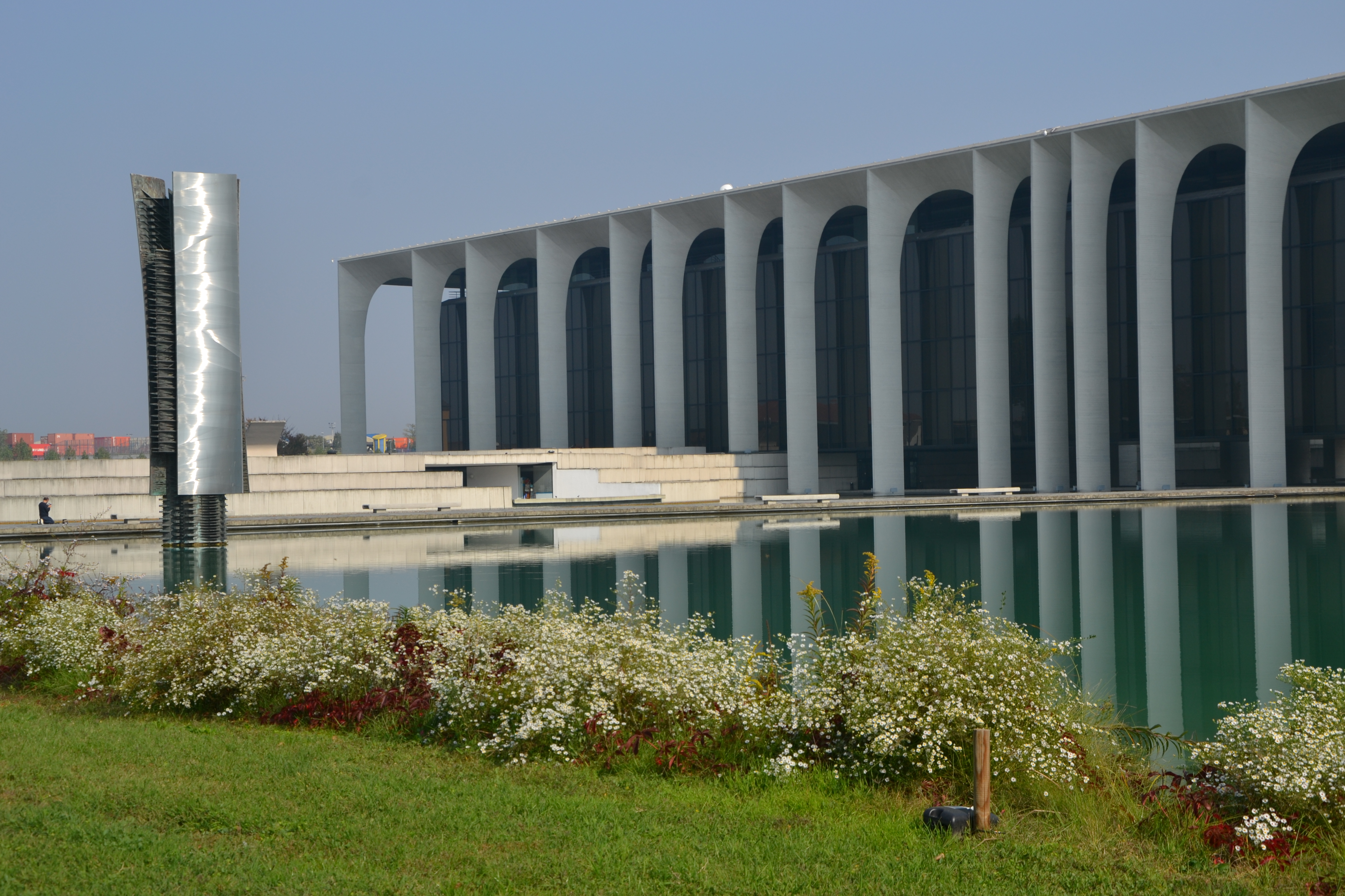 Mondadori headquarters by Oscar Niemeyer (1967 - 1970), Segrate (Milano). Column with large leaves, sculpture by Arnaldo Pomodoro 1971–1972